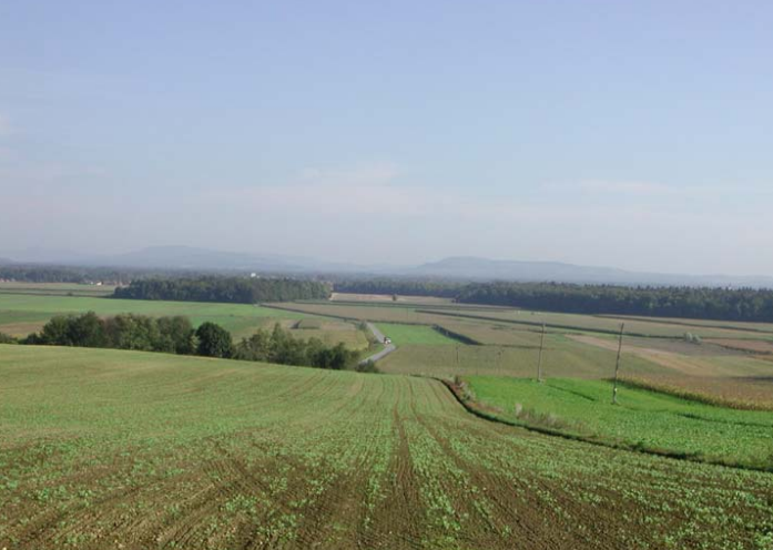 Apasko polje